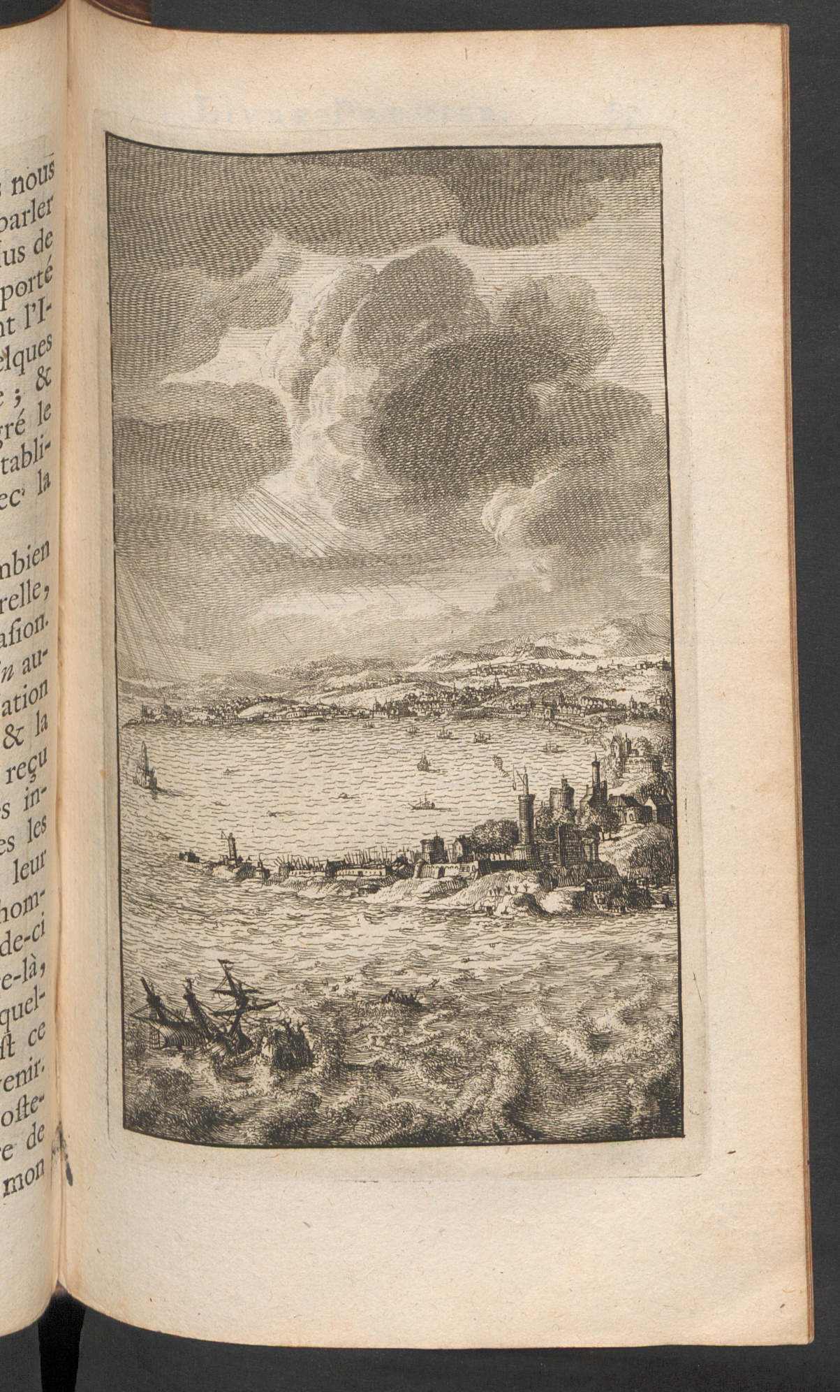 Engraving by François van Bleyswik for Th. More's Utopia translated by N. Gueudeville in 1715 (ETH-Bibliothek Zürich). This engraving (page 93) represents the entrance of the narrows of Utopia island. We can see a ship sinking, the defences of the island and also the tower that protects the entrance of the inland sea of Utopia.